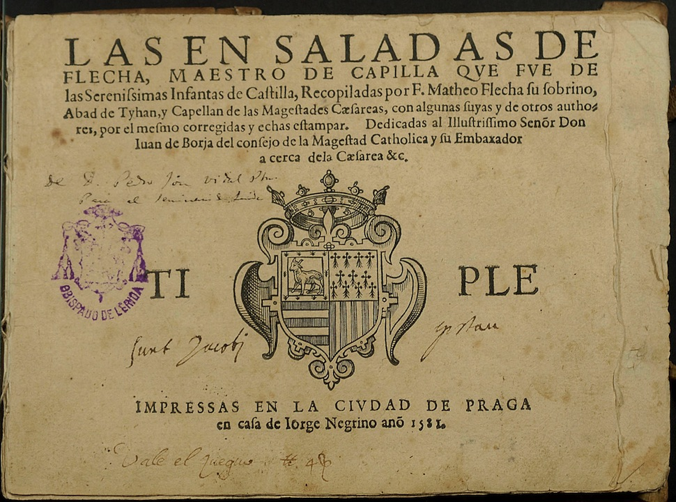 Cover of the book Ensaladas, edited by Mateu Fletxa, published in 1581 in Prague. Reproduced in the Revista Musical Catalana magazine of April 1906